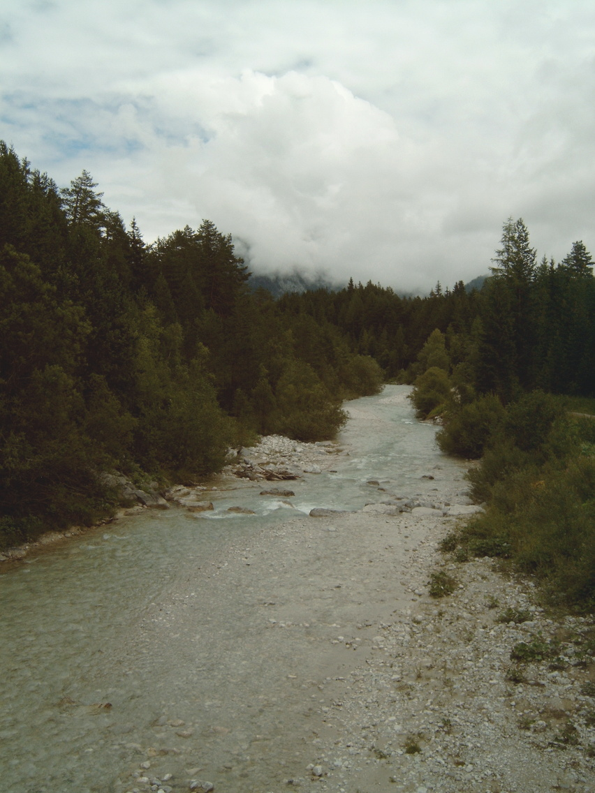 stream "Leutascher Ache" in the "Leutasch" valley